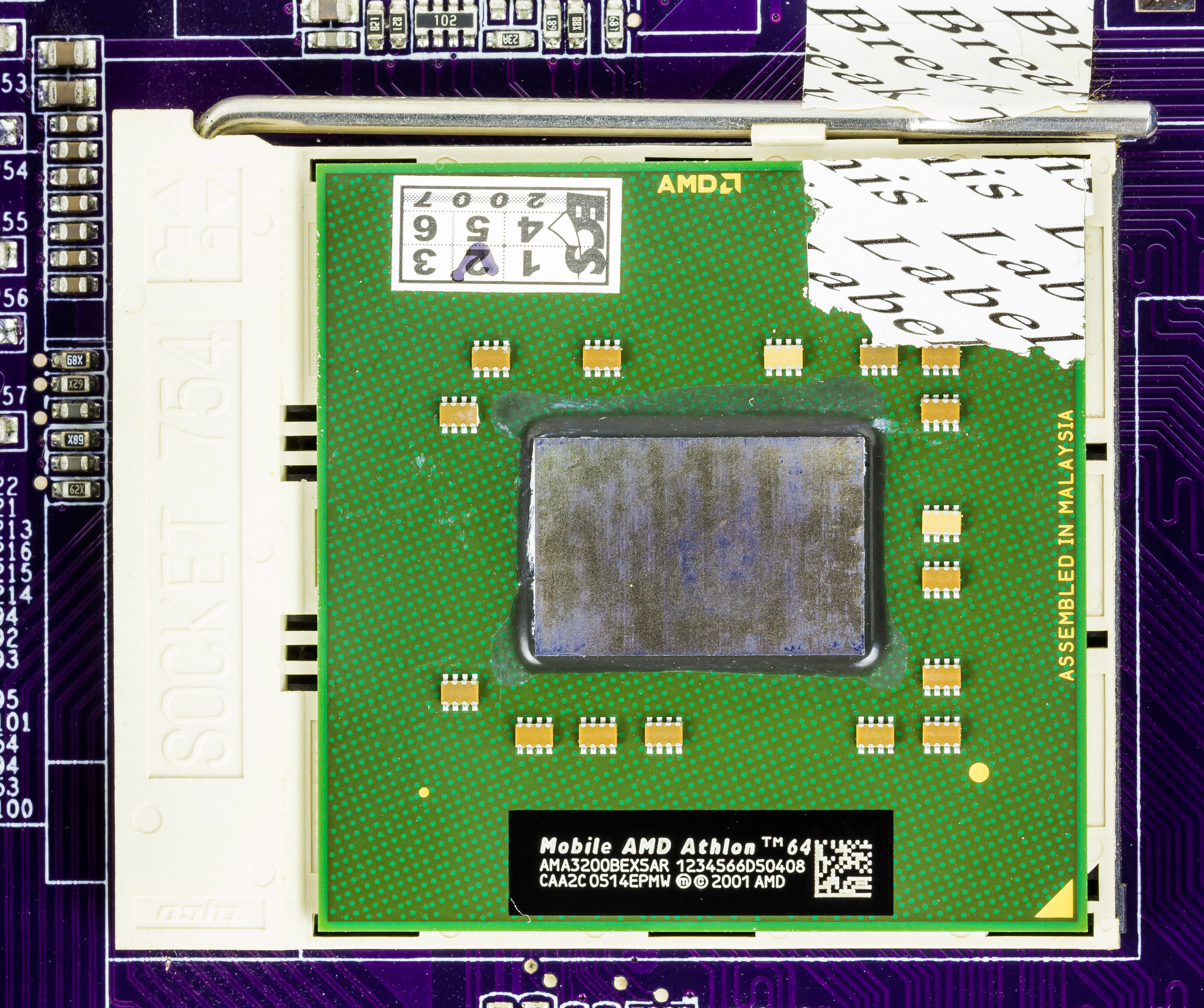 Elitegroup 761GX-M754-4654.jpg - Mobile AMD Athlon 64 in socket 754